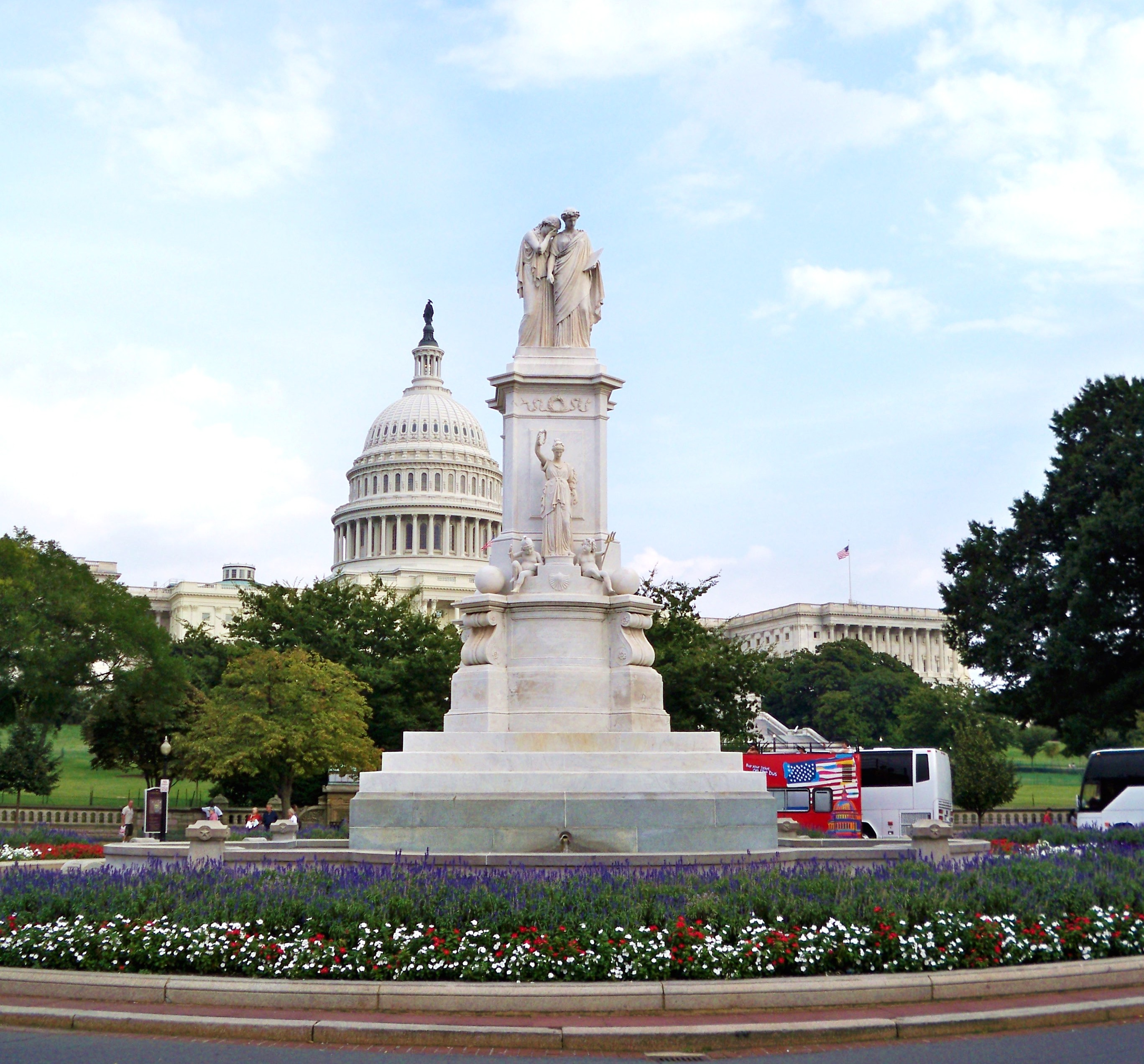 Peave Memorial in front of the US Capitol.